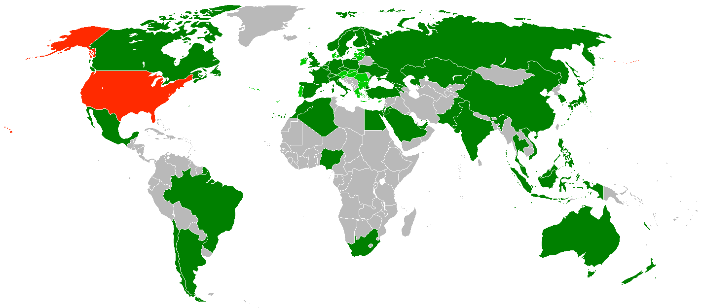 Participant nations of Nuclear Security Summit held in Washington, D.C., April 12-13, 2010. Host nation (United States) Participating nations European Union members represented by the President of the European Council only